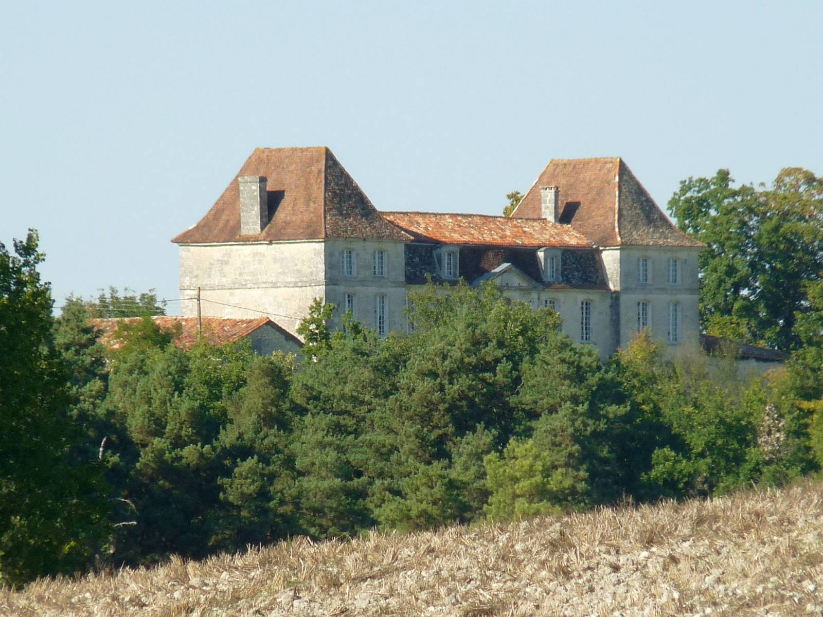 castle of La Richardie, Bouteilles-Saint-Sébastien, Dordogne, SW France